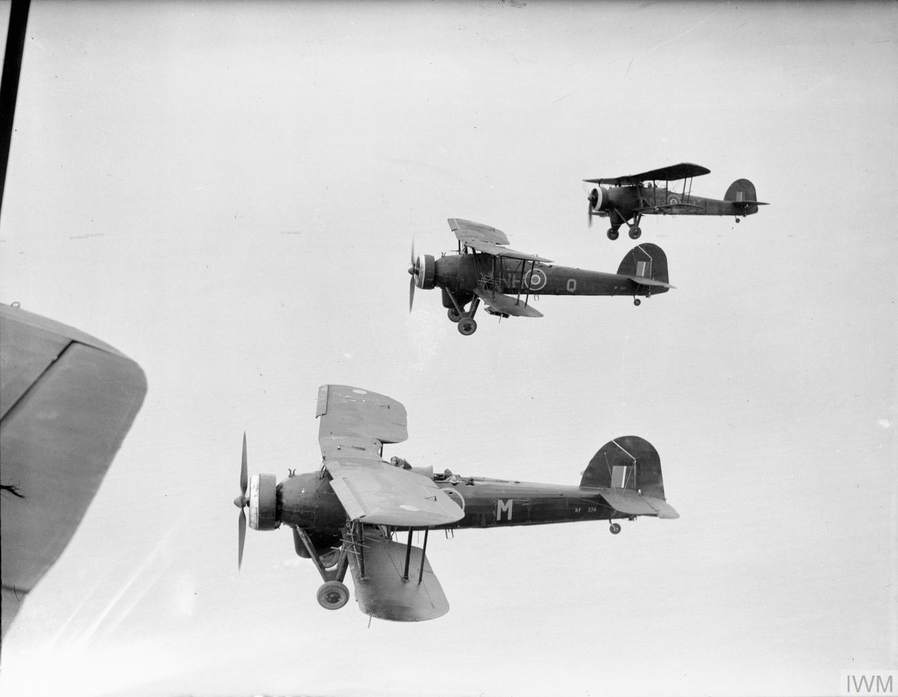 Royal Air Force Coastal Command, 1939-1945. Three Fairey Swordfish Mark IIIs (NF374 'NH-M', NF343 'NH-Q' and 'NH-L') of No. 119 Squadron RAF, based at B58/Knokke le Zoute, Belgium, flying in loose starboard echelon formation over the North Sea.